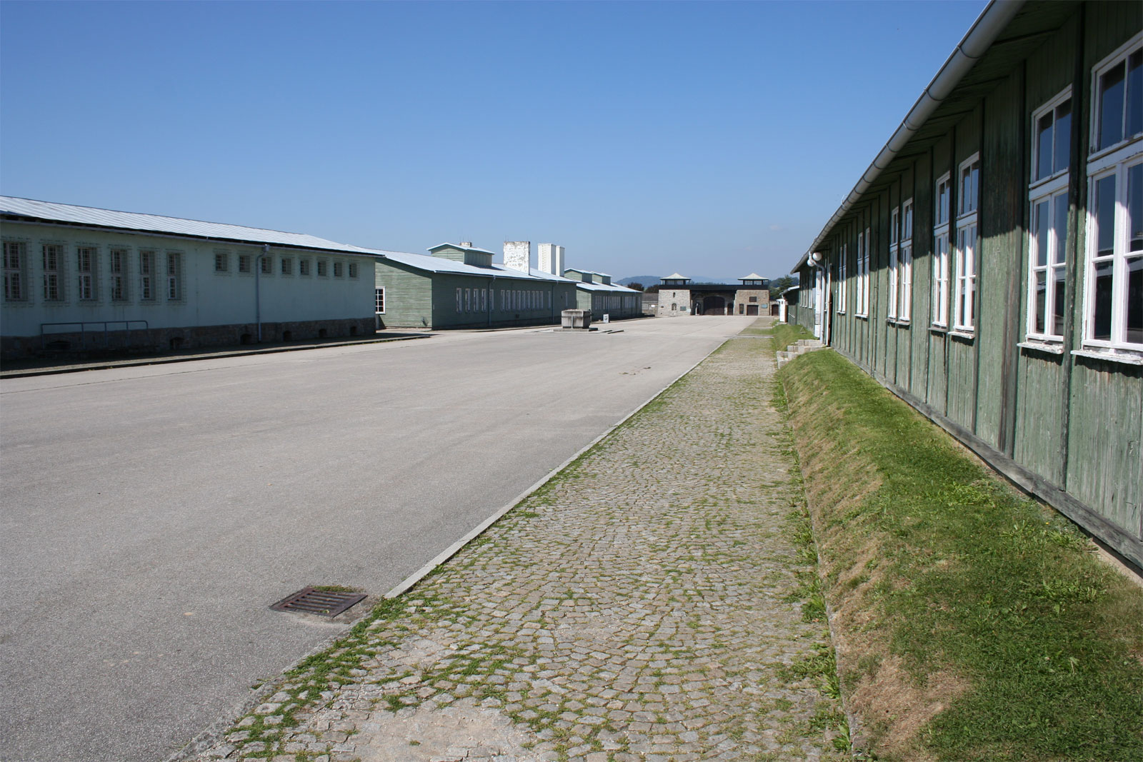 Photographer: Matthew Cudmore (from en wiki) This photograph was taken in August 30, 2005. It was taken near the last barrack hut and looks towards the main camp gates. To the left is the hospital, gas chamber and crematorium chimney. The large piece of stone in the centre is a memorial; carved with Latin words and covered in stones (a Jewish custom).